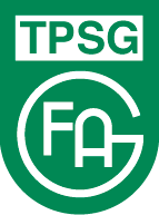 emblem of TPSG Frisch Auf Göppingen e.V.